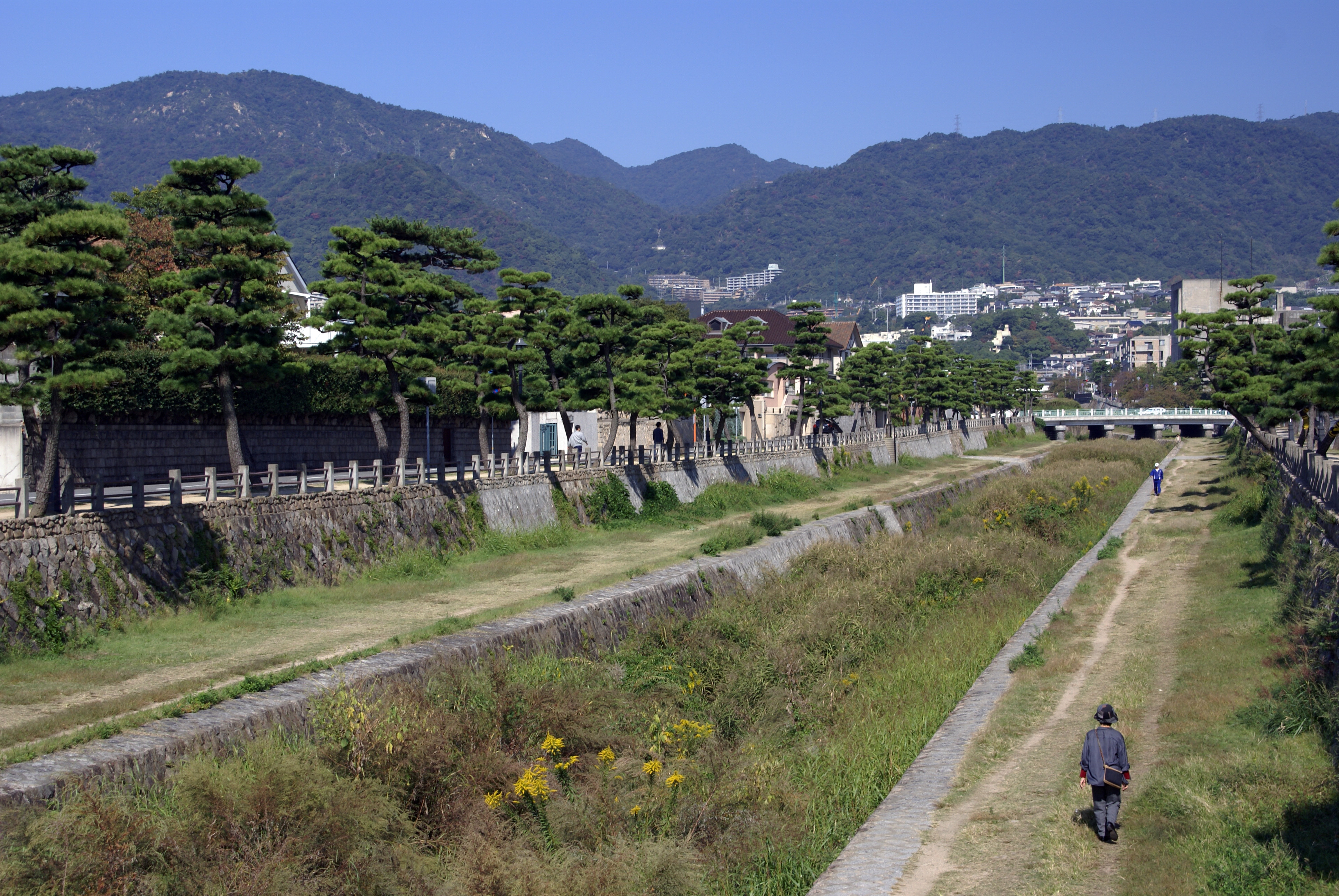 Ashiya River in Ashiya, Hyogo prefecture, Japan